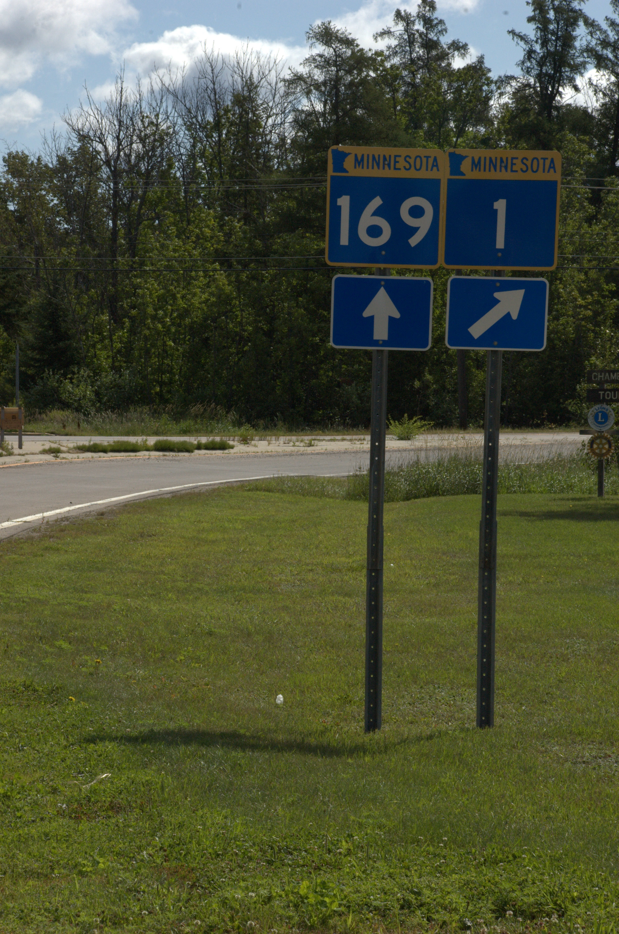 Northen MN